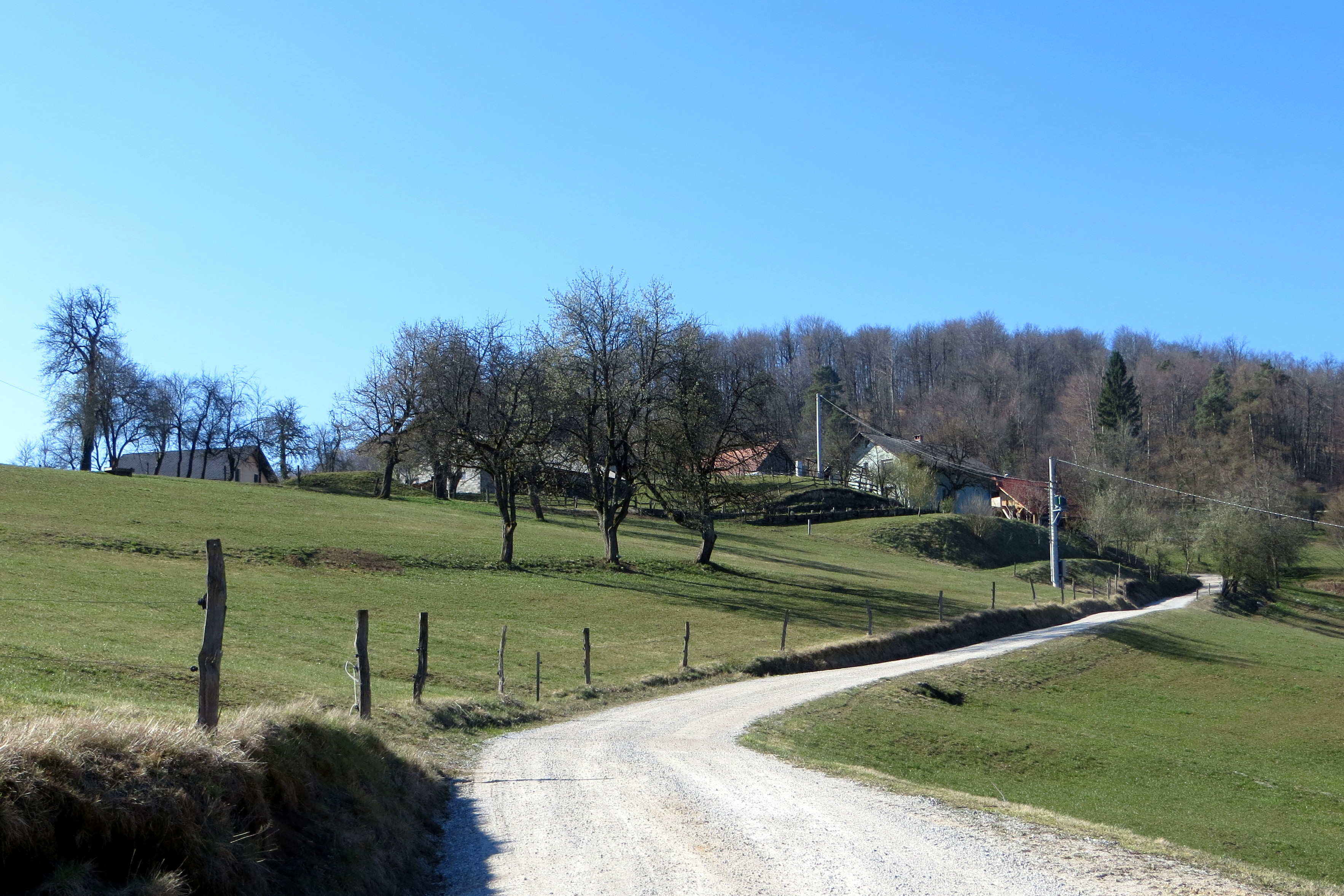 Ravno Brdo, Municipality of Ljubljana, Slovenia